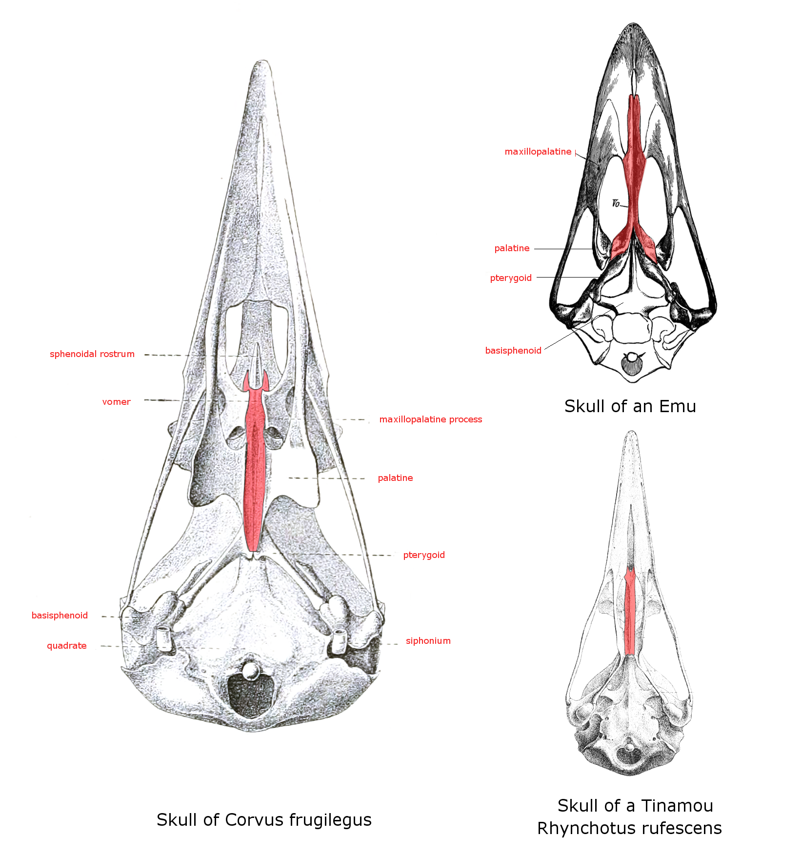 Skulls of Paleognathae and Neognathae showing position of vomer